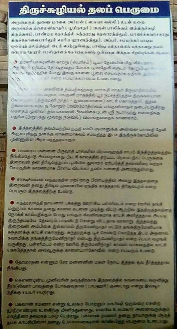 DESCRIPTION